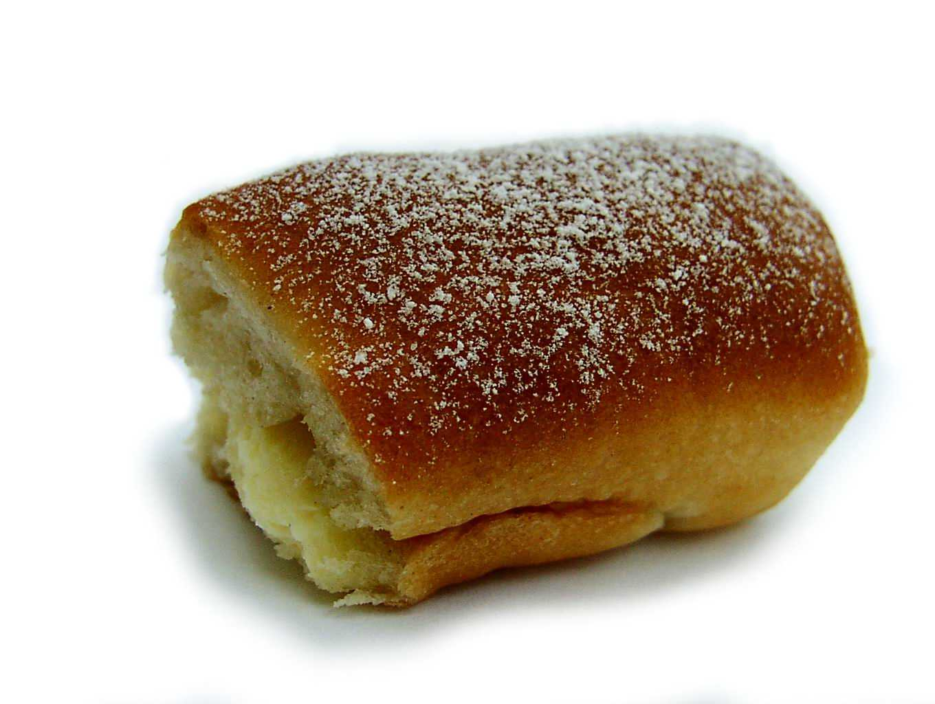 Buchta - Czech ethnic pastry